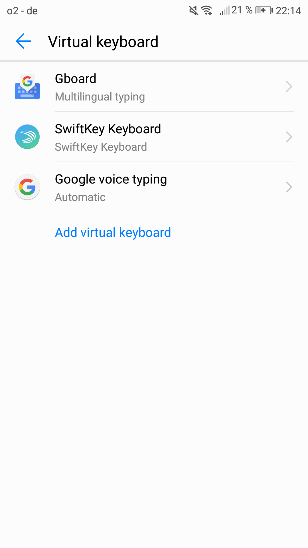 Android Keyboard Settings Menue